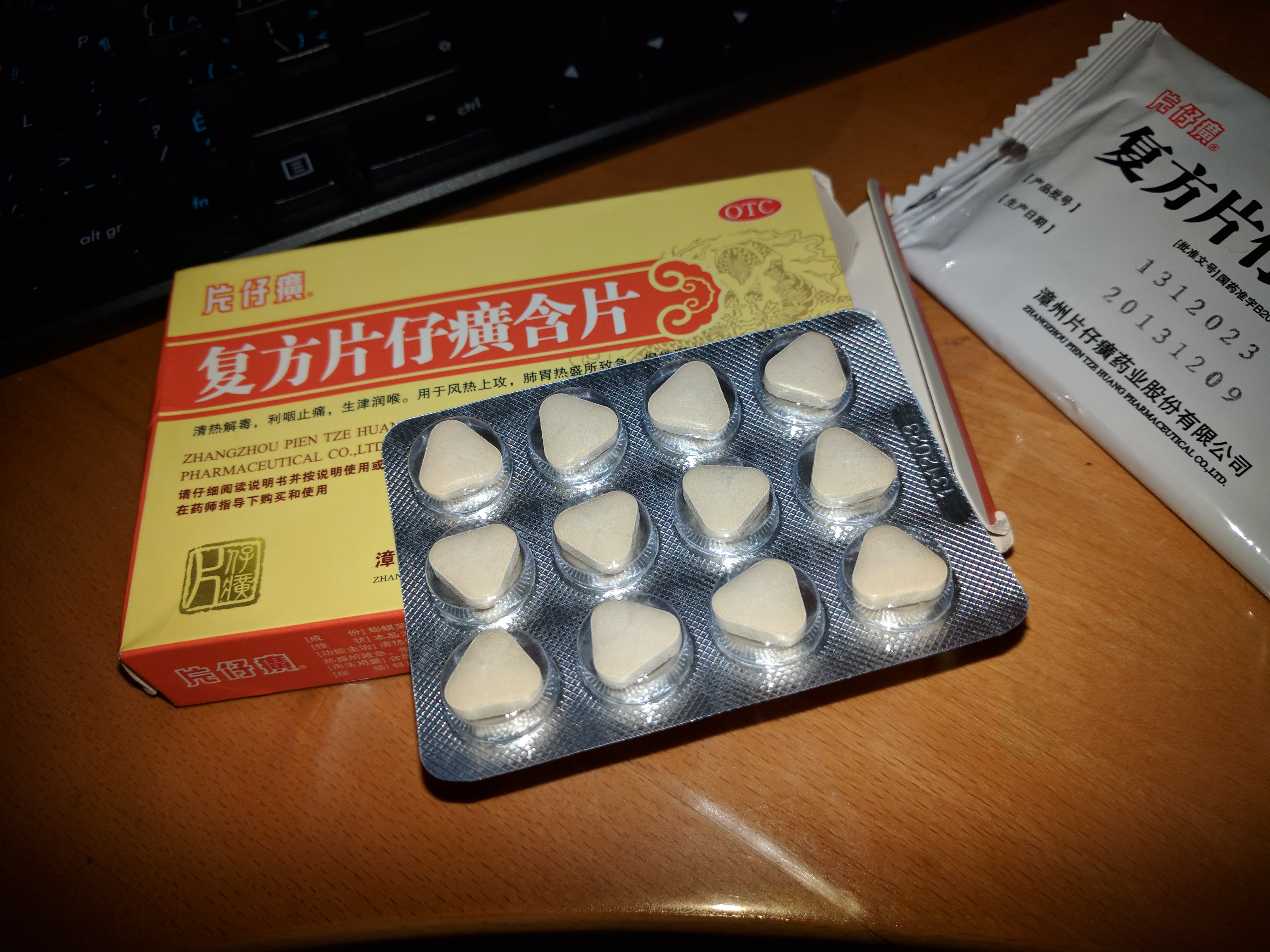 Pian tze huang, Chinese pills